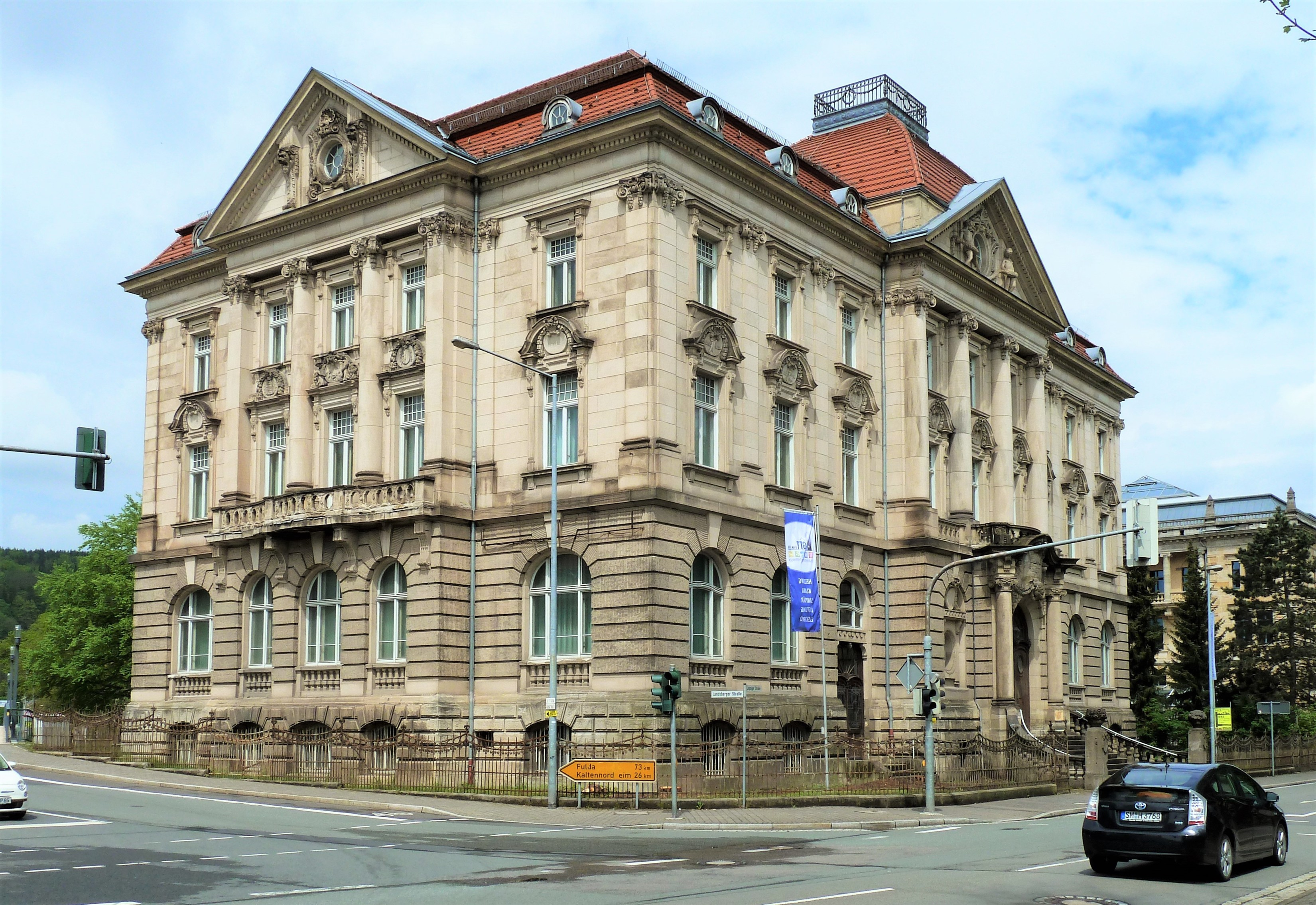 Former bank building in City of Meiningen, "Bank für Thüringen" - headquarters, built 1909, office building today.